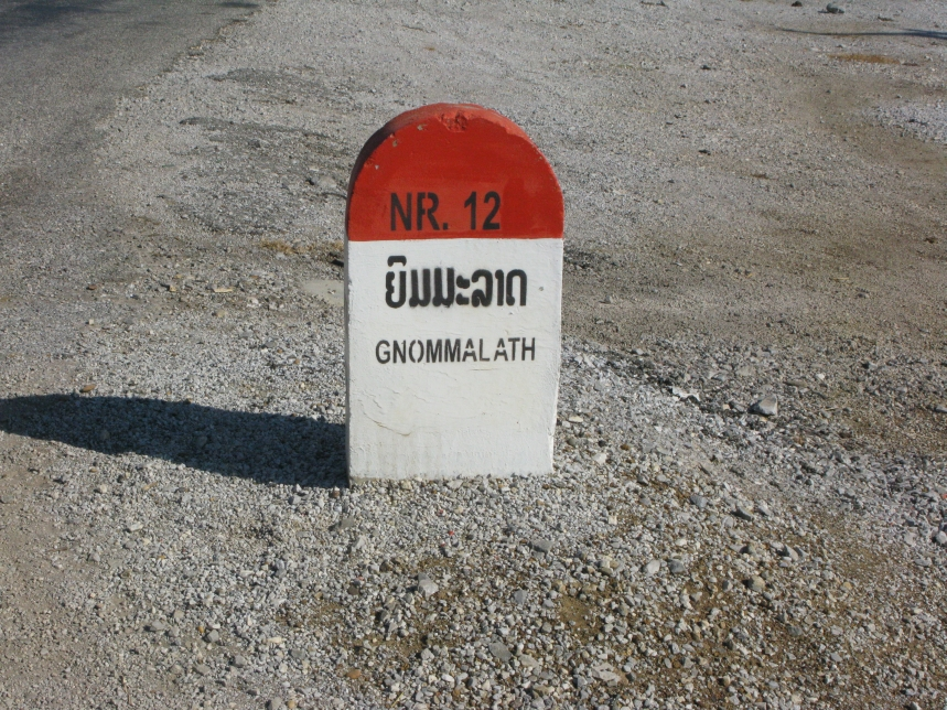 National route #12, Khammuane, Laos.